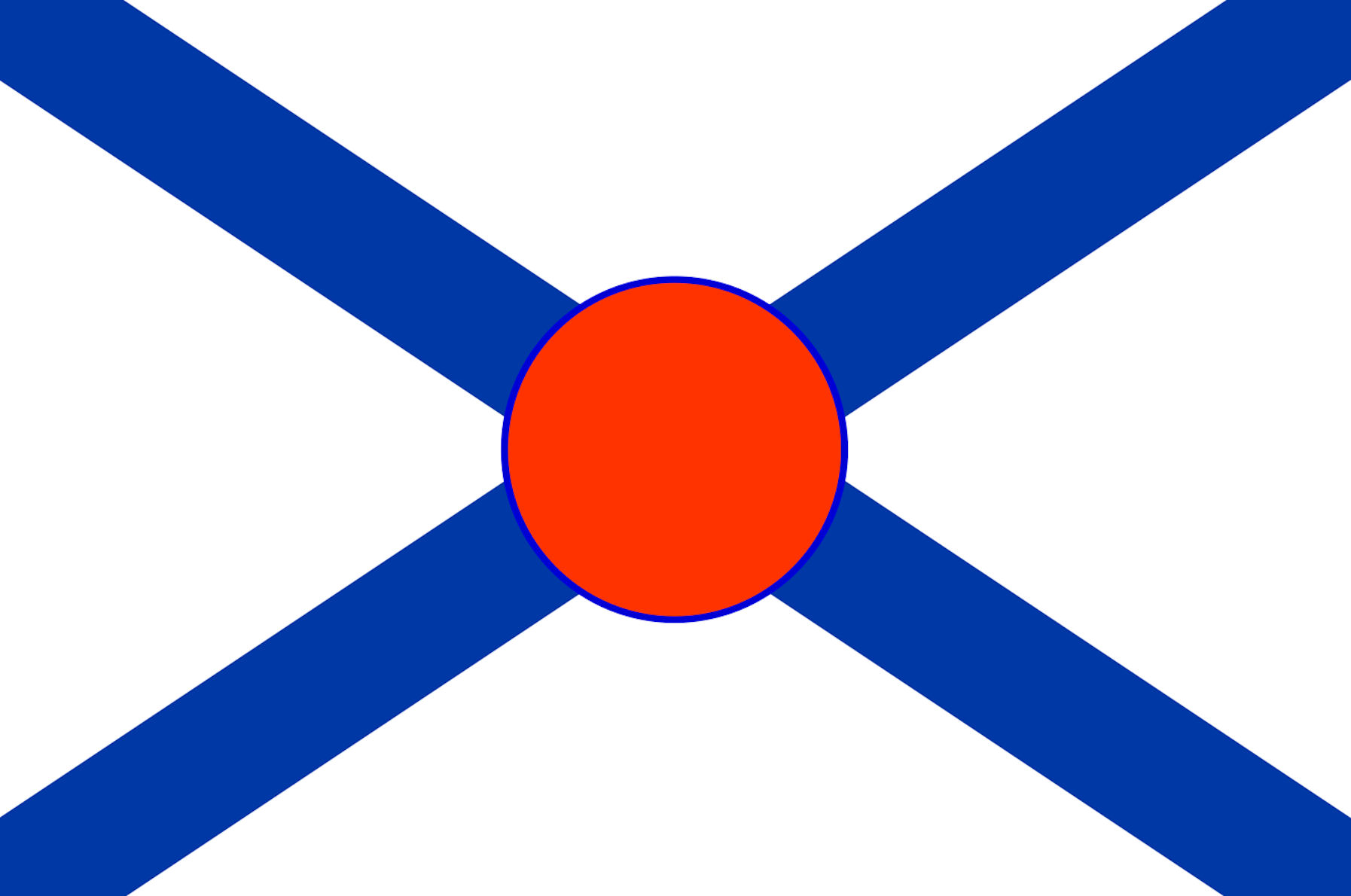 Anglo-Saxon Petroleum Company Logo